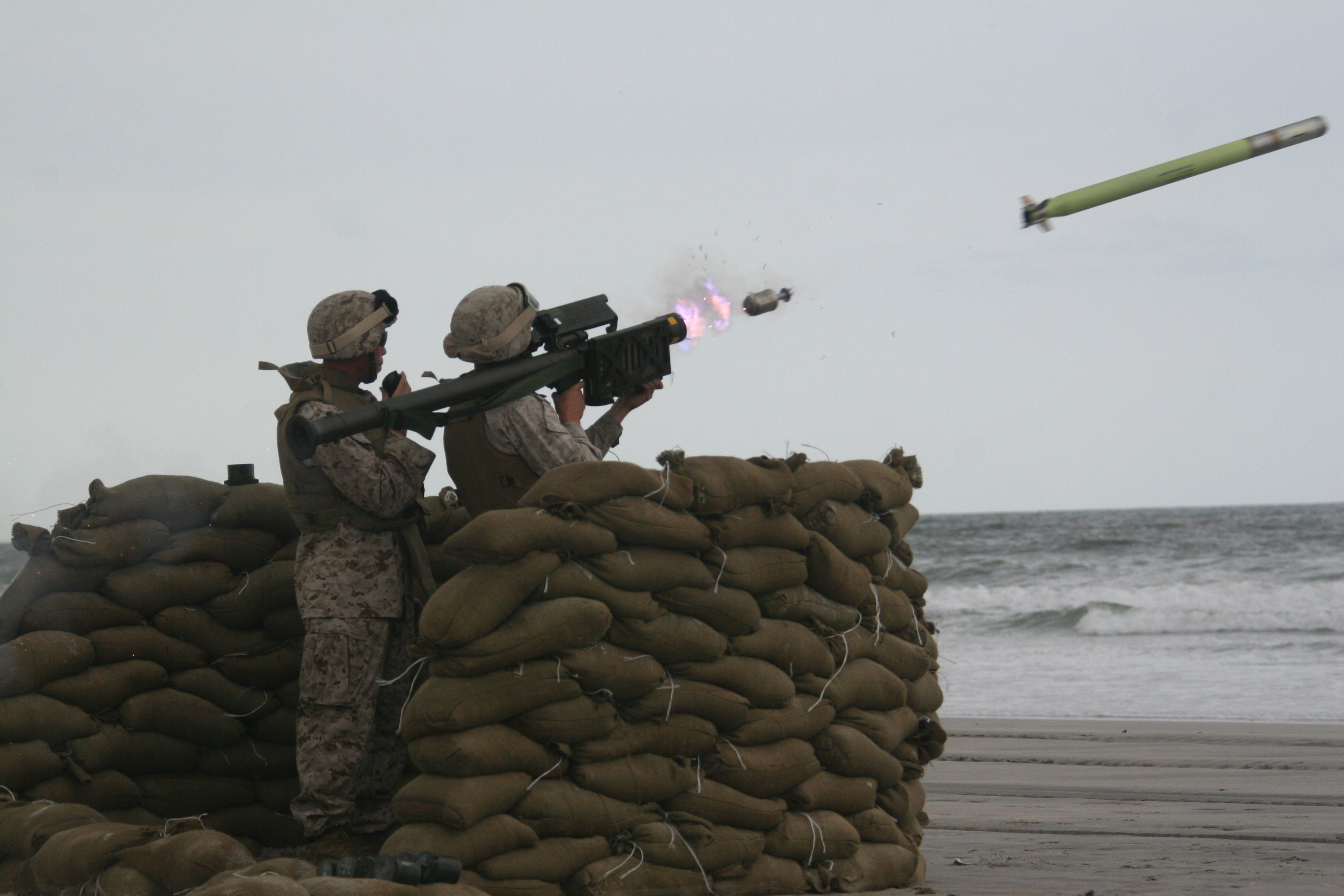 Staff Sgt. Tony L. Moore, Alpha Battery section leader with 2nd Low Altitude Air Defense Battalion, coaches a 2nd LAAD Marine as they fire off a Stinger missile Sept. 13 at Onslow Beach on Marine Corps Base Camp Lejeune